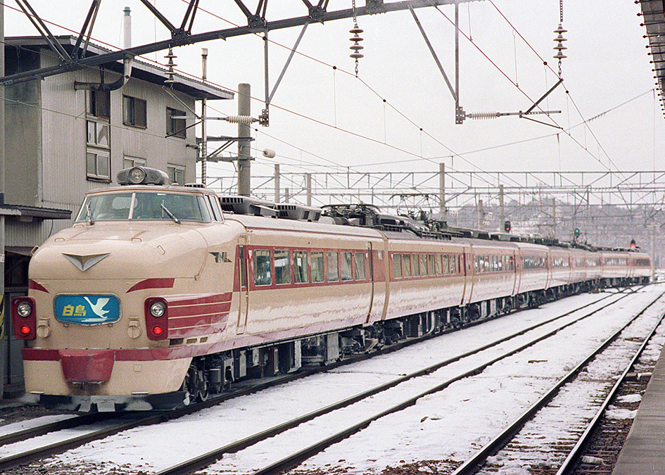 JNR 485 series EMU on a "Hakucho" limited express service at Akita Station